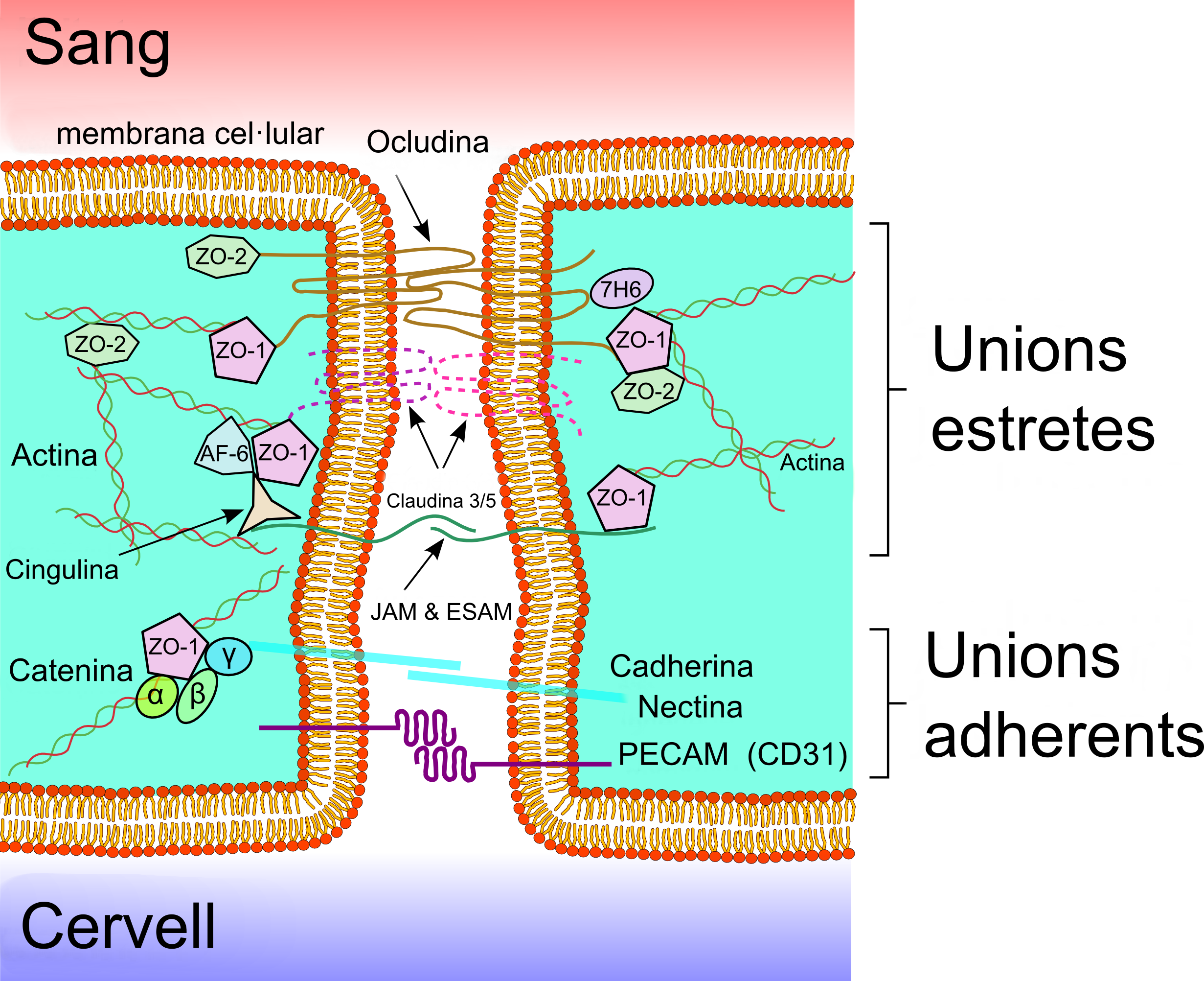 Schematic sketch showing the tight junctions and adherens junctions at the blood-brain barrier.